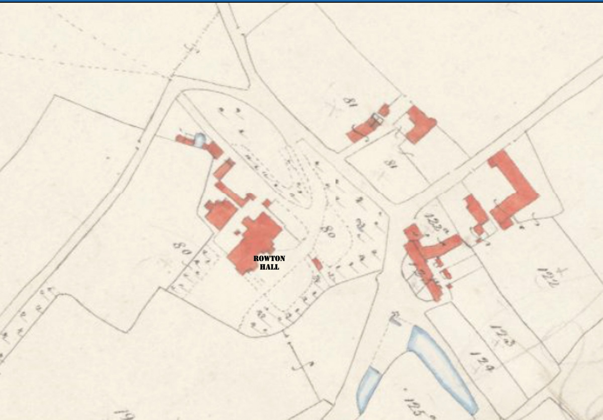 Tithe Map of Rowton Hall 1847